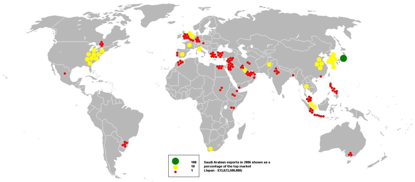 This bubble map shows the global distribution of Saudi Arabian exports in 2006 as a percentage of the top market (Japan - $33,623,500,000). This map is consistent with incomplete set of data too as long as the top producer is known. It resolves the accessibility issues faced by colour-coded maps that may not be properly rendered in old computer screens. Data was extracted on 30th September 2007 from Based on :Image:BlankMap-World.png